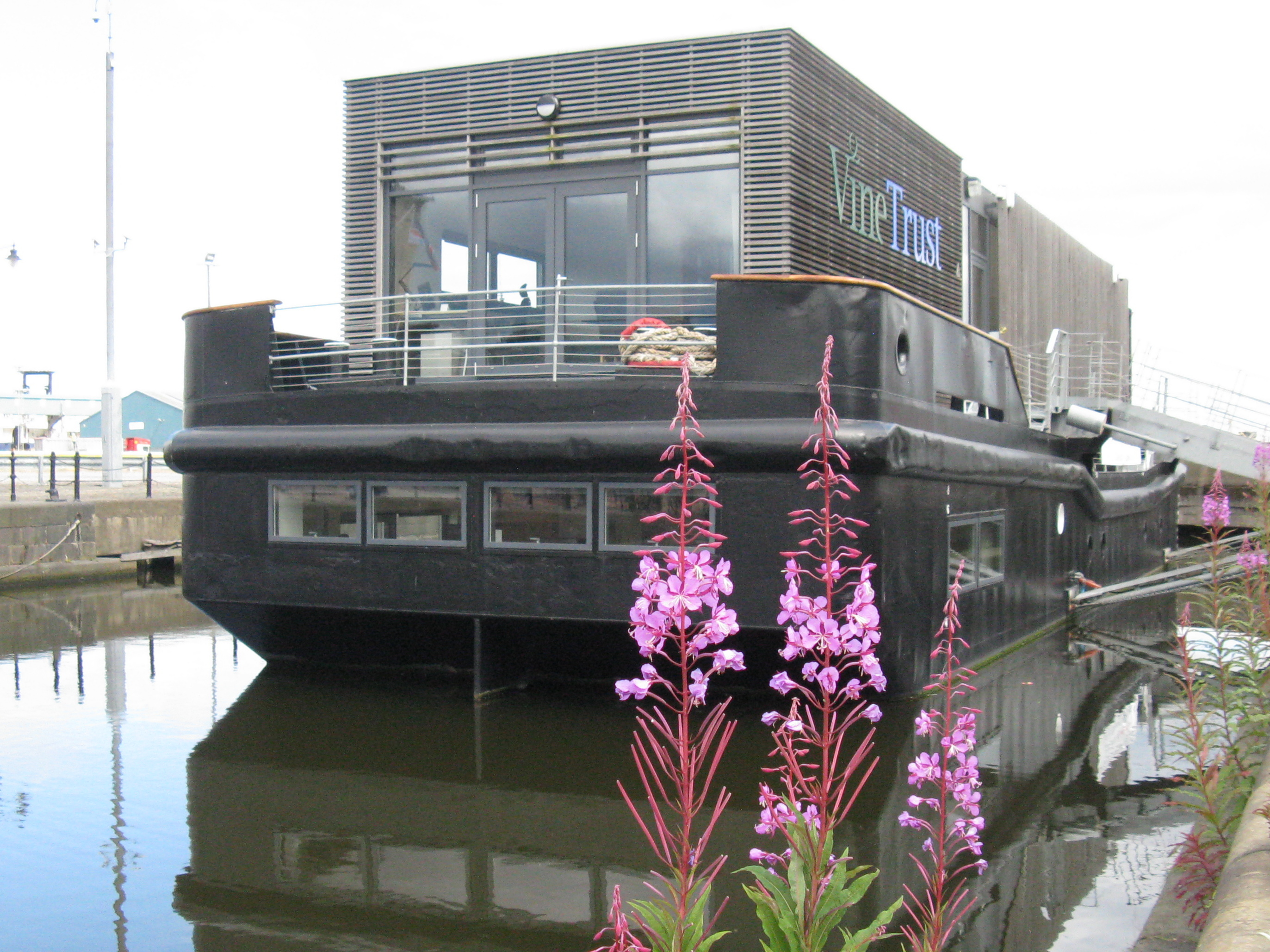 The Vine Trust barge. A decommissioned MOD oil barge ['Tom Dunn'] in The Prince of Wales Dock, Leith, serving as the HQ of the trust, which is an international interdenominational volunteering charity which seeks to enable volunteers to make a real and significant difference to some of the poorest children and communities in the world.